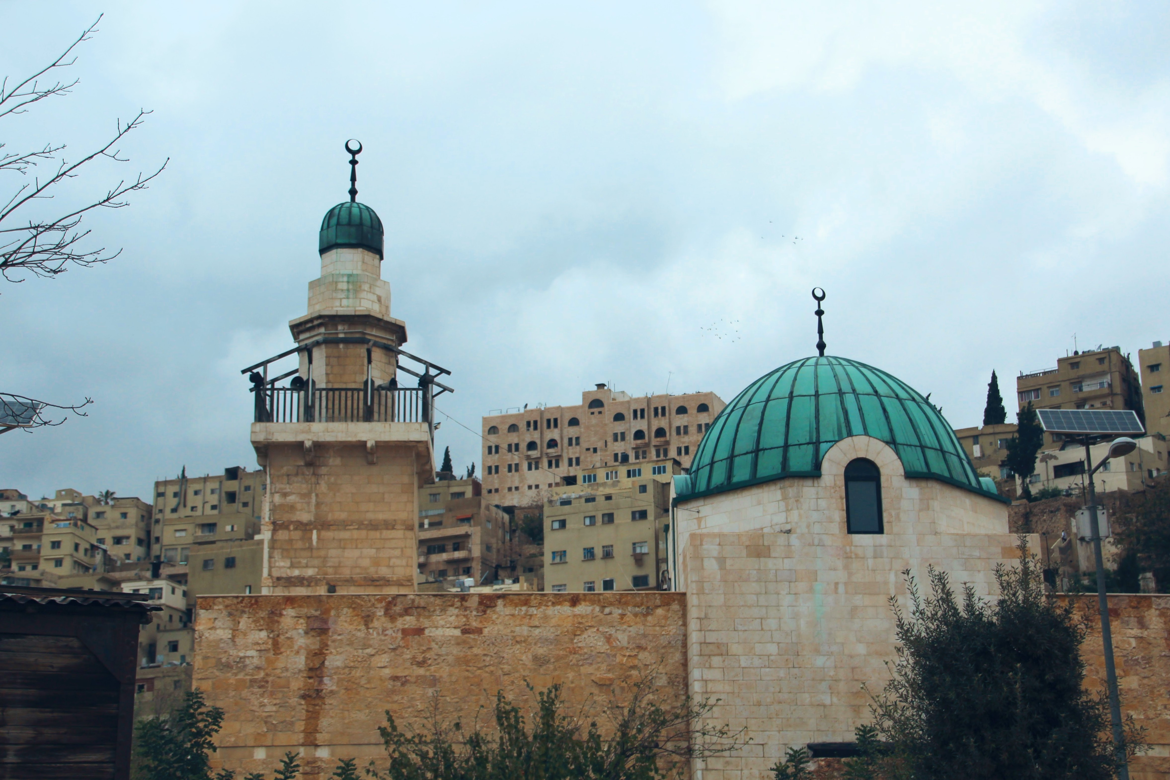 Masjid Al-Amanah next to Greater Amman Municipality and the Jordan Museum in central Amman, Jordan